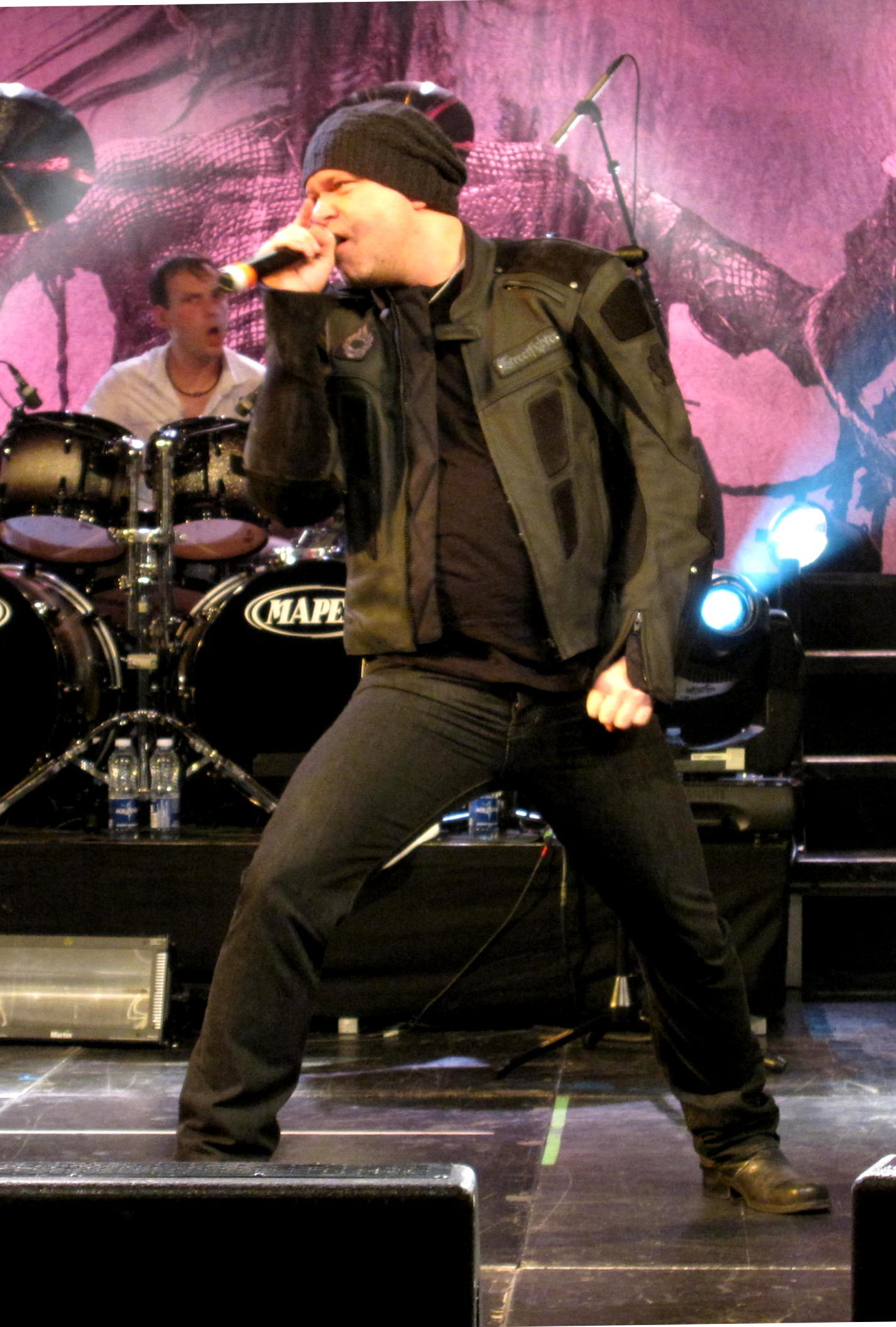 Michael Kiske performing live with Avantasia in Stockholm on 2010-12-05